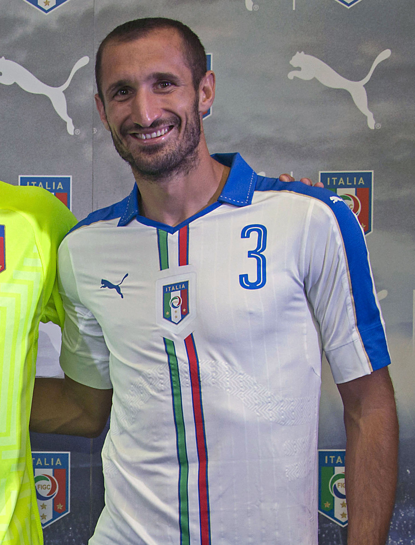 Florence, Italy (September 3, 2015). Giorgio Chiellini at the 2015-16 FIGC & PUMA Away kit launch.